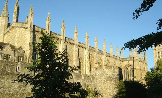 New College Chapel, University of Oxford, behind part of the old city wall